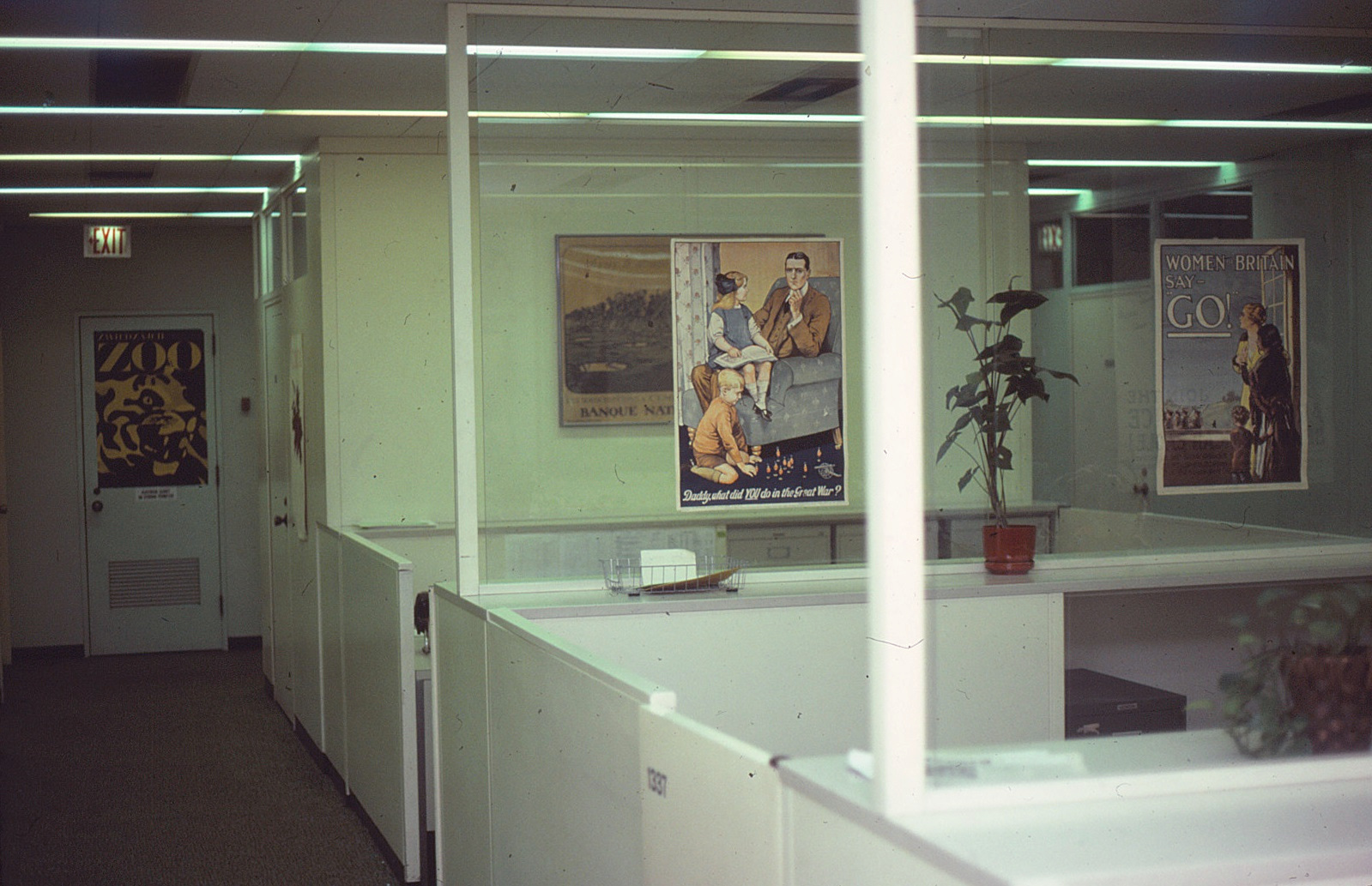 Central area of the Institute of War and Peace Studies, on the 13th floor of the International Affairs Building. Visible are reproductions of two well-known British World War I recruitment posters, "Daddy, what did you do in the Great War?" and "Women of Britain say Go!" Scan of a Kodachrome slide stamped June 1985 and taken by Warner R. Schilling. Image subsequently inherited by the uploader.